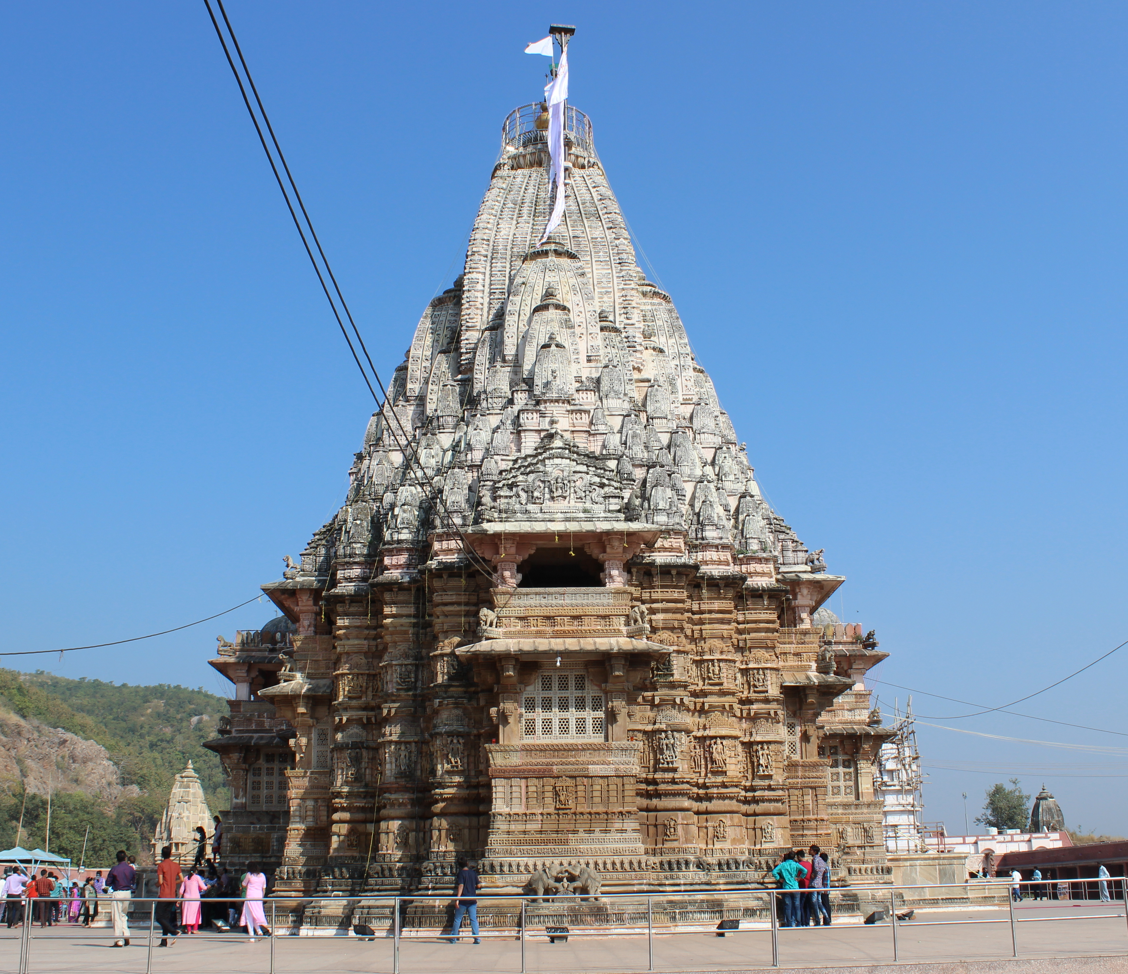 Shamlaji temple, located on the banks of the Meshvo river is a major Hindu pilgrimage centre in Aravalli district of Gujarat state of India. The Shamlaji temple is dedicated to Vishnu or Krishna ગુજરાતી: શામળાજી મંદિર ગુજરાત રાજ્યના અરવલ્લી જિલ્લામાં મેશ્વો નદીને કિનારે આવેલું હિંદુ ધર્મનું પવિત્ર યાત્રાધામ છે. આ મંદિર વિષ્ણું અથવા કૃષ્ણ ભગવાનને સંબંધિત છે.